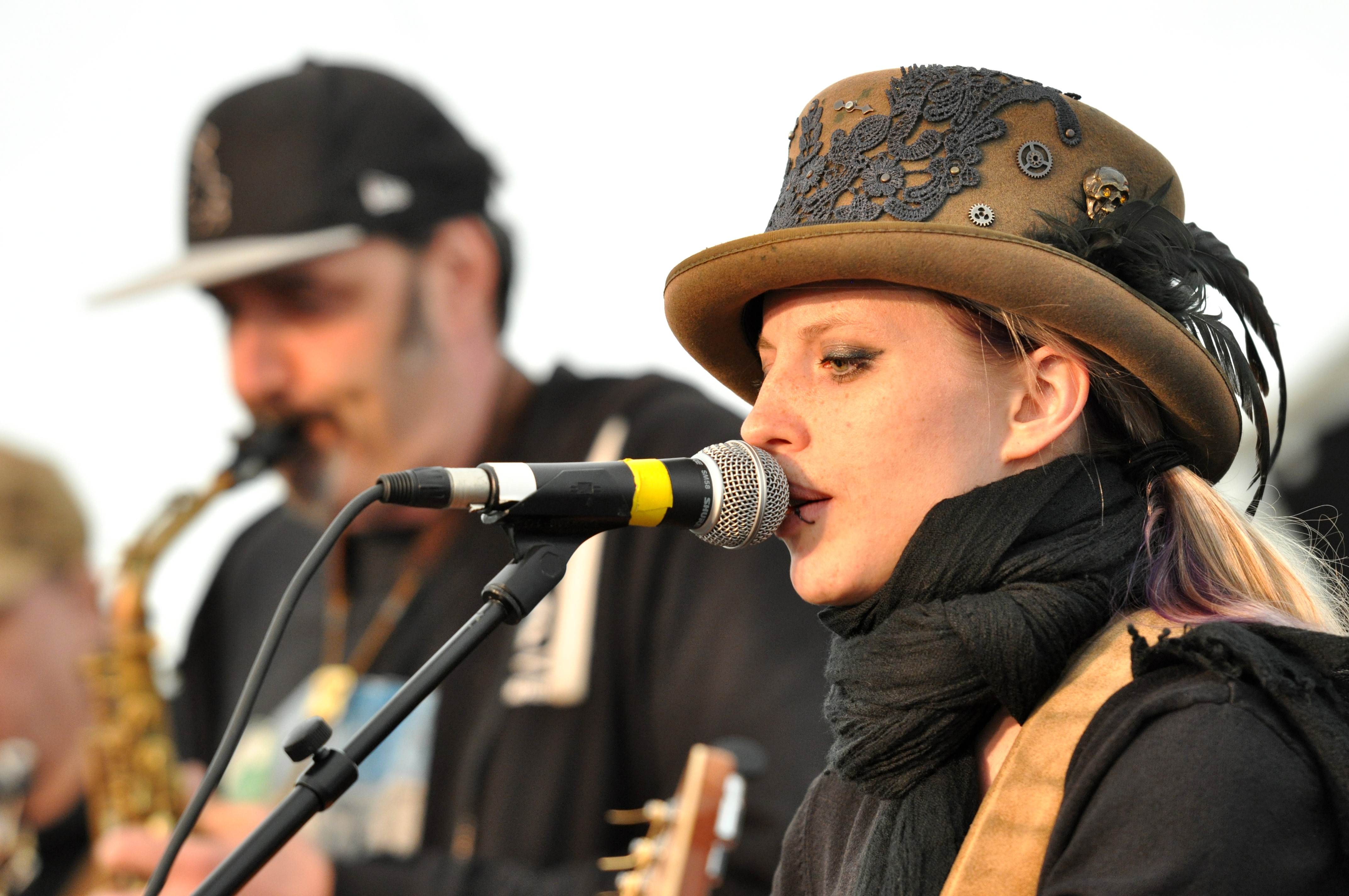 Cynthia Nickschas and Band at the 2016 song festival at Waldeck castle, Dorweiler, Rhineland-Palatinate, Germany Festivalsommer This photo was created with the support of donations to Wikimedia Deutschland in the context of the CPB project "Festival Summer".